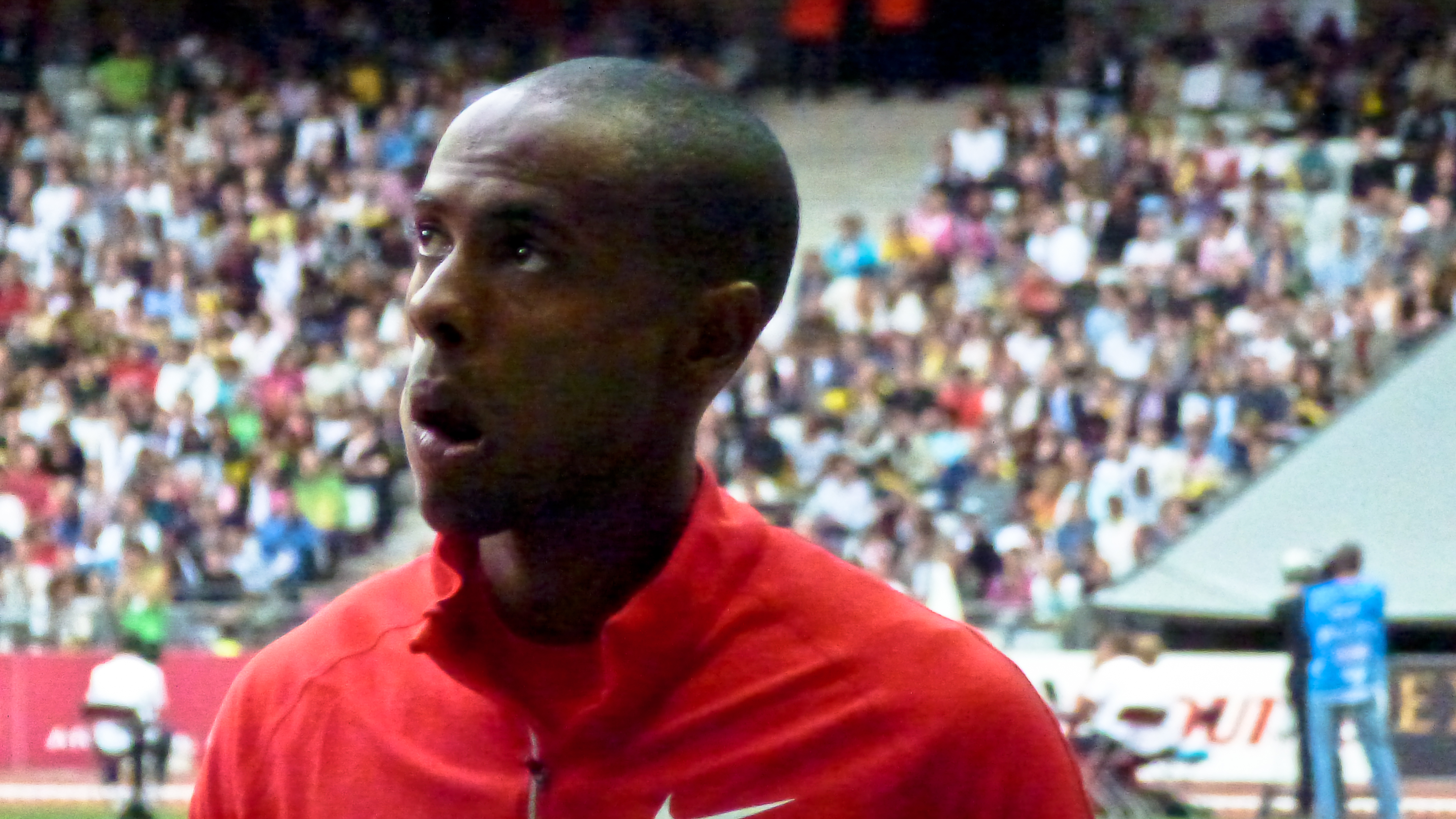 Irving SALADINO